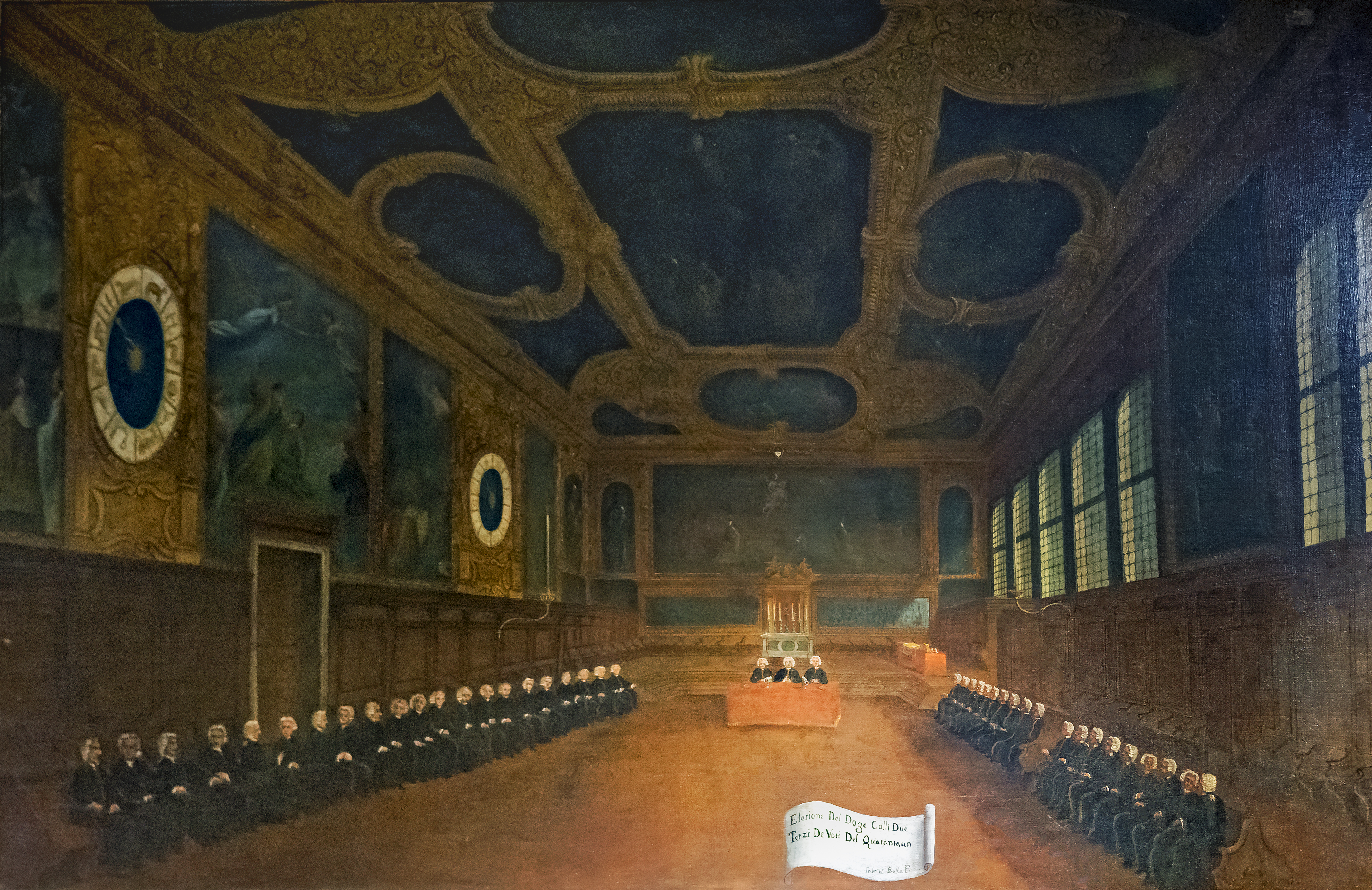 The painting recalls the complicated procedure put in place for the election of the highest office in the Republic of Venice. A child was to draw thirty patricians who were to draw others, who still chose them, up to the number of forty-one. The latter elected the doge.